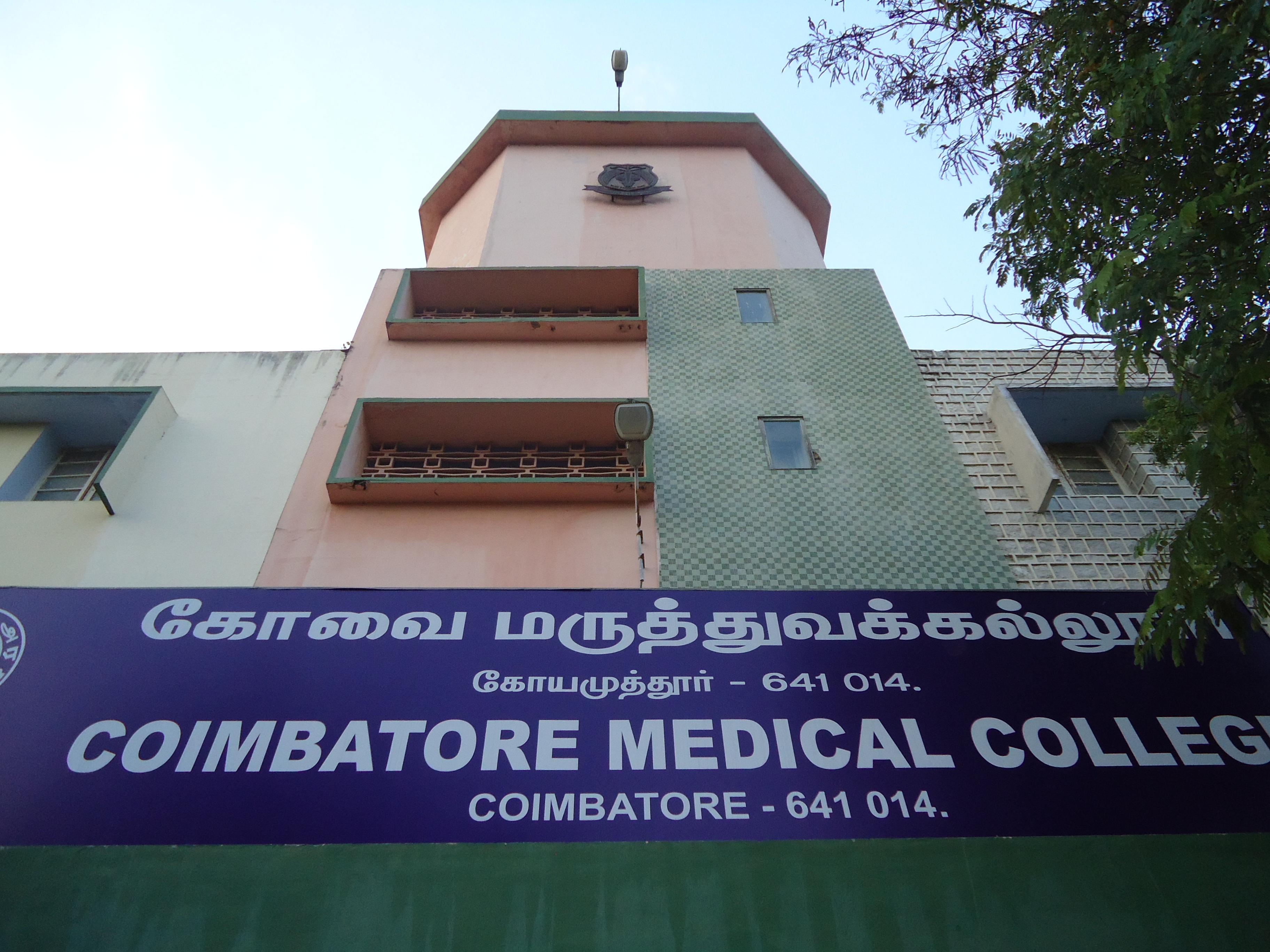 tower view of coimbatore medical college main block